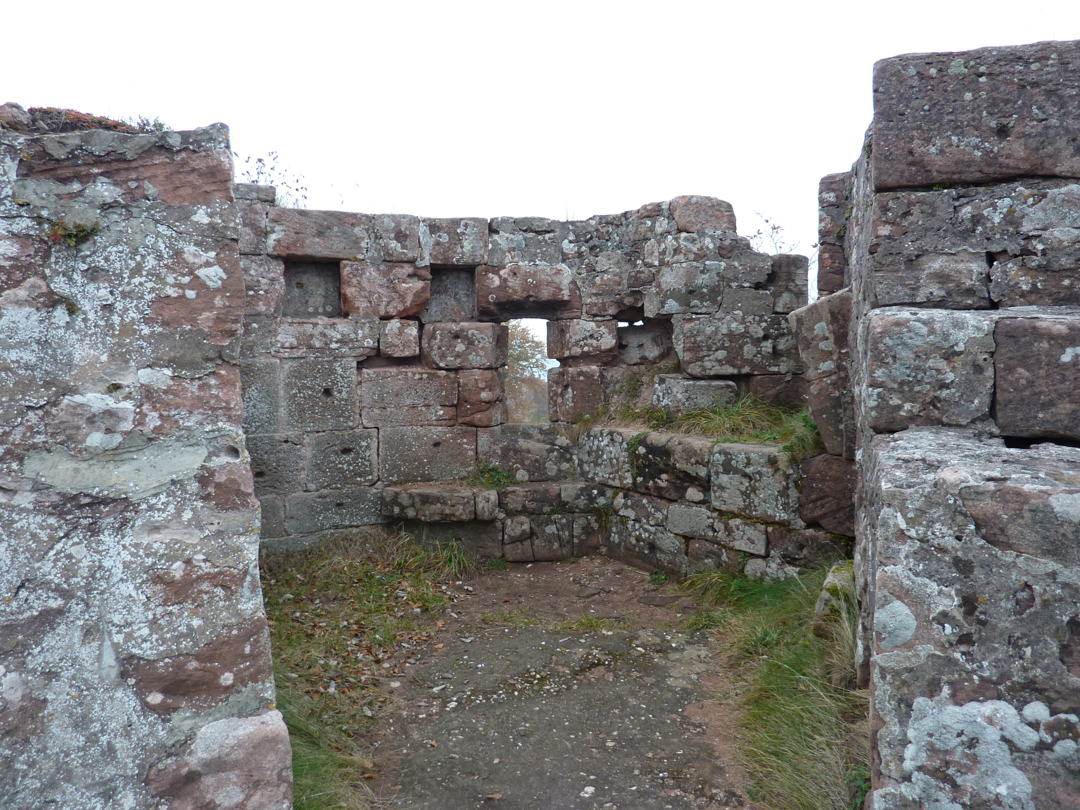 Chapel of the castle of Grand Ochsenstein, Bas-Rhin, France. View from chapel hallway.